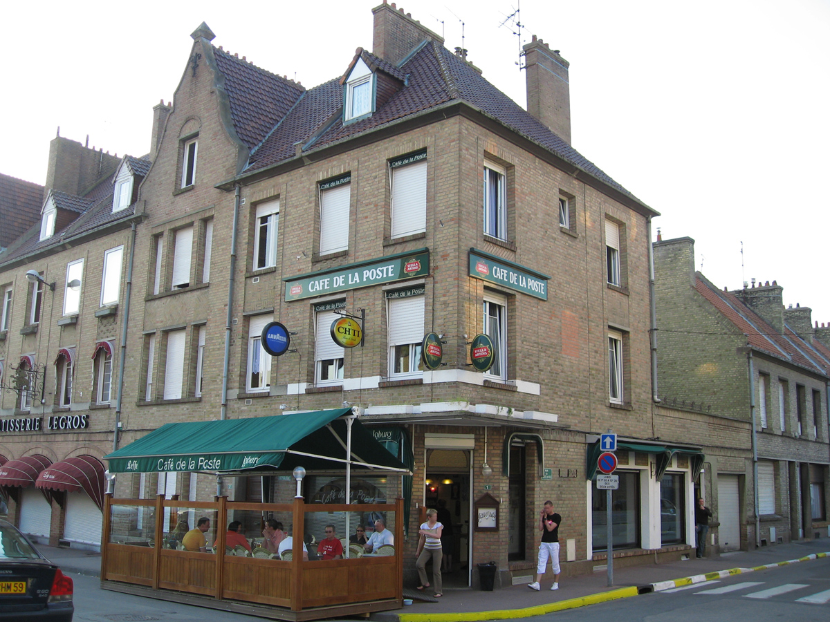 The Café de la Poste, Bergues, Nord-Pas-de-Calais, France